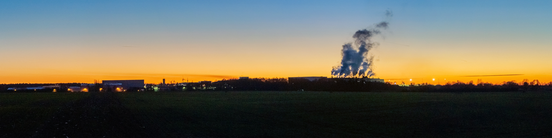 Industrial and. Business park Burg b. M. (with Progroup Board GmbH)